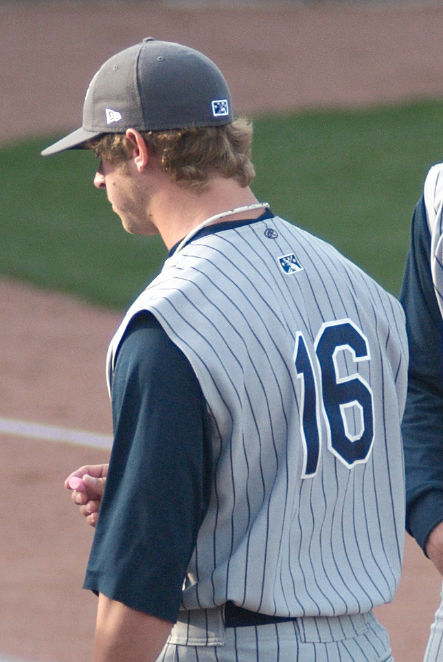 Austin Adams, Mickey Callaway and others with the Lake County Captains in 2010